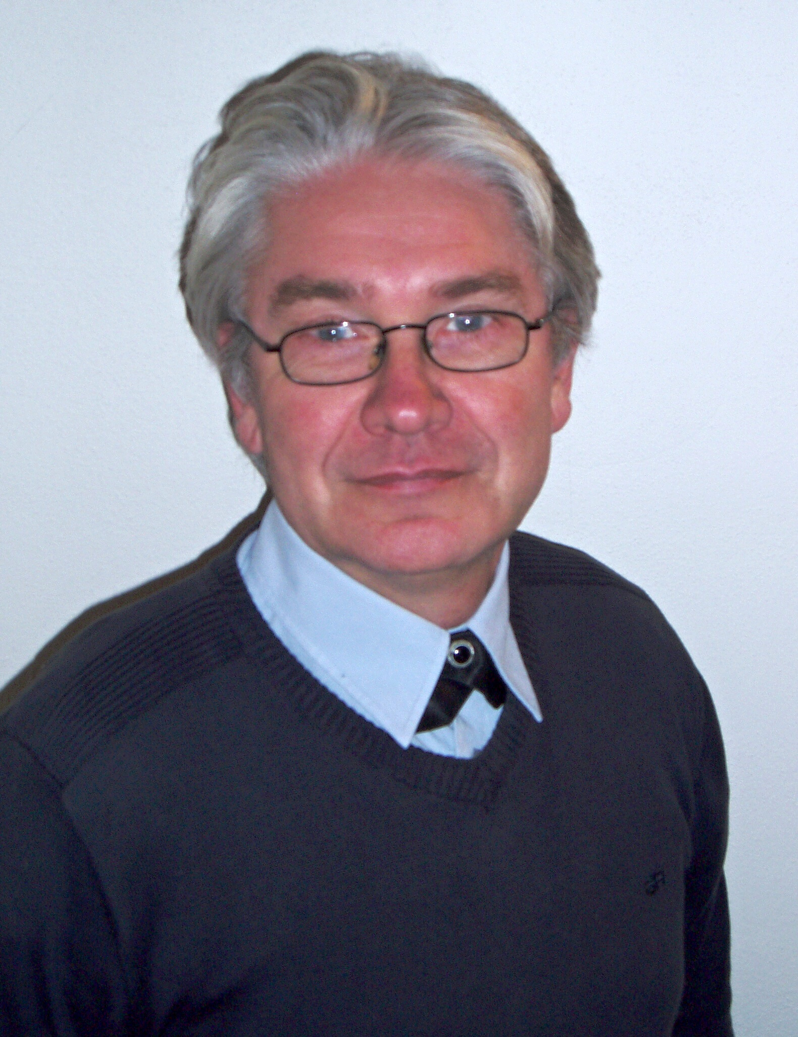 the photo of Eduard niznansky